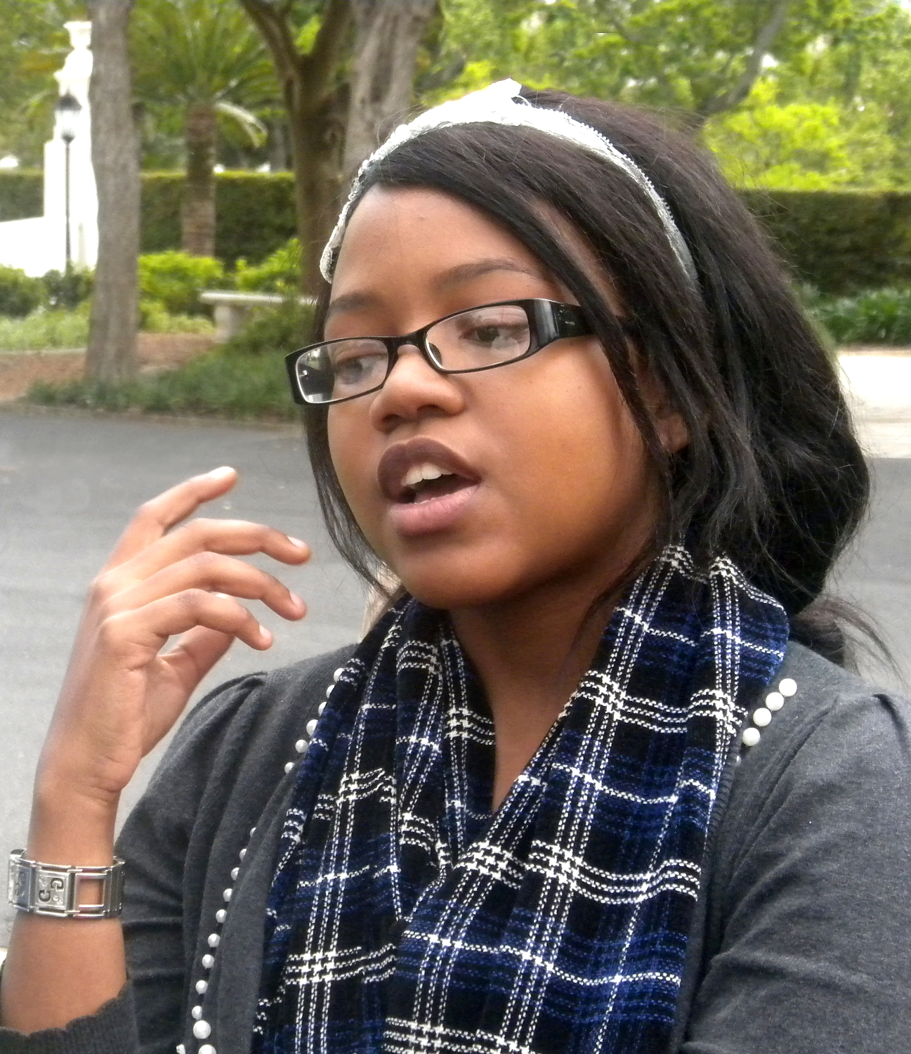 DA Student Organisation representative and 2010/11 University of Cape Town SRC president Amanda Ngwenya. Photo taken at Leeuwenhof, the residence of Western Cape premier Helen Zille.